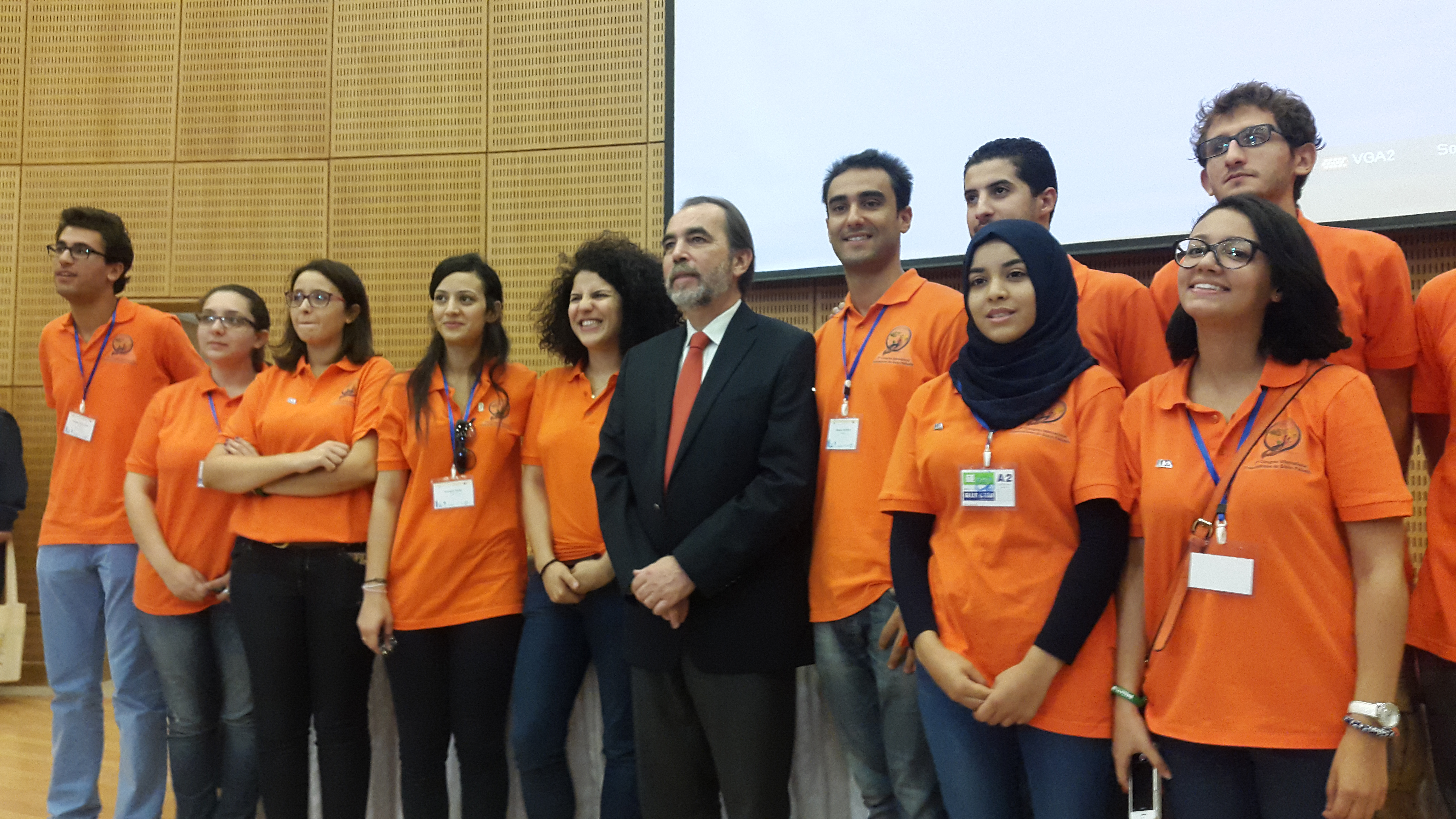 Said Aidi minister of health with volunteers from the medicine university of Tunis during the international conference of palliative care